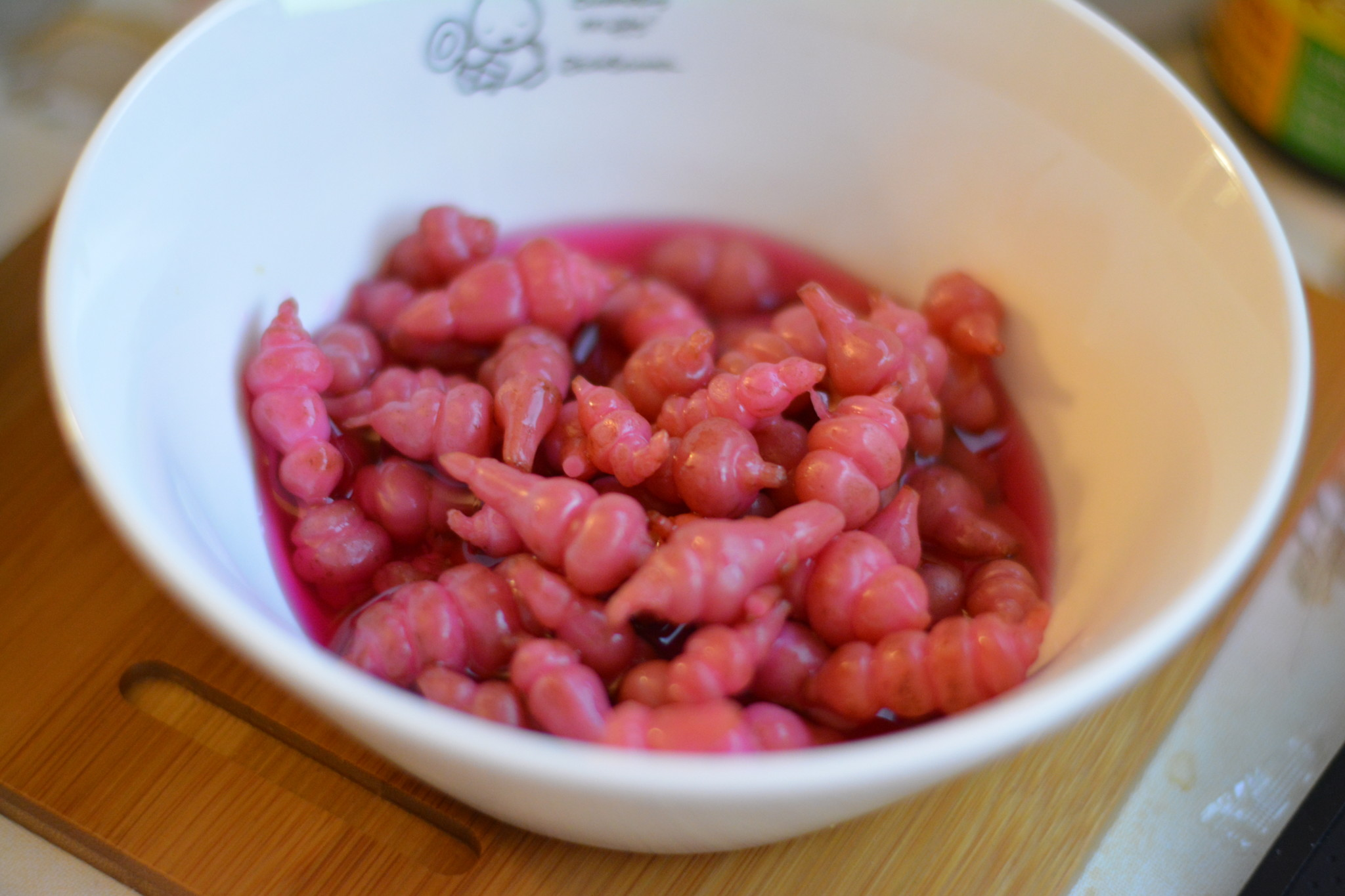 Crimson pickles pickled with plum vinegar. In recent years, a reddish colored product with red No. 102 has also been distributed, but the original pickled ponzu with plum vinegar turns reddish. (Auto-translation).